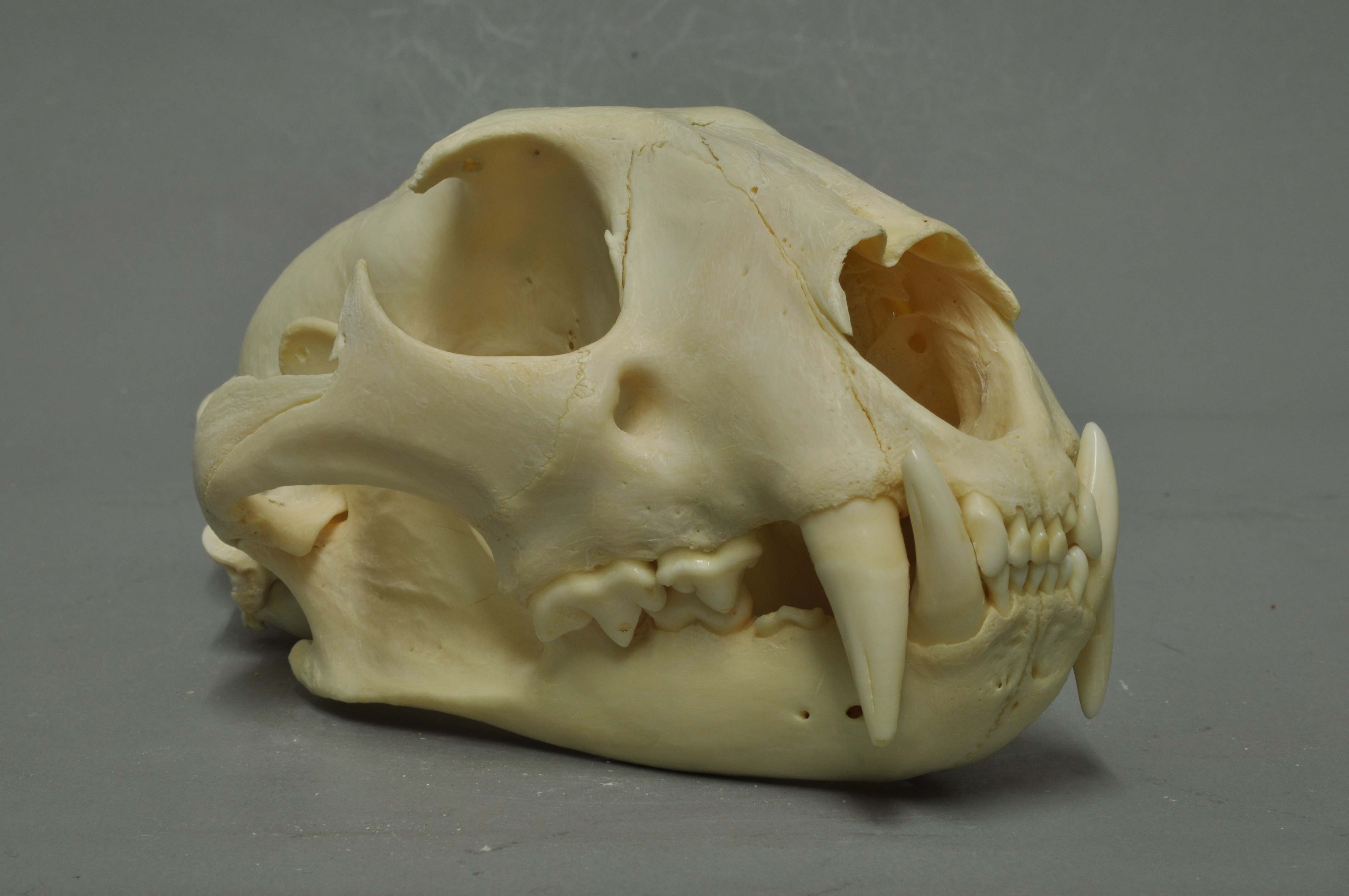 Javan leopard Panthera pardus melas, skull, Coll. Museum Wiesbaden